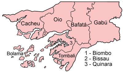 Map of the regions of Guinea-Bissau, named in Portuguese (native language), compatible with English. Individual maps are: Bafatá Biombo Bissau (autonomous sector) Bolama Cacheu Gabú Oio Quinara Tombali